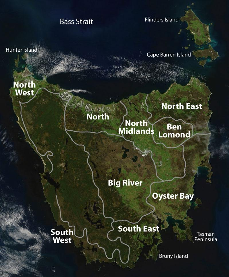 Map of Tasmanian Tribes at the time of first European contact. Based on data from Lyndall Ryan, The Aboriginal Tasmanians, Allen & Unwin, 1996, ISBN 1863739653 and overlaid on a photograph from NASA [1].